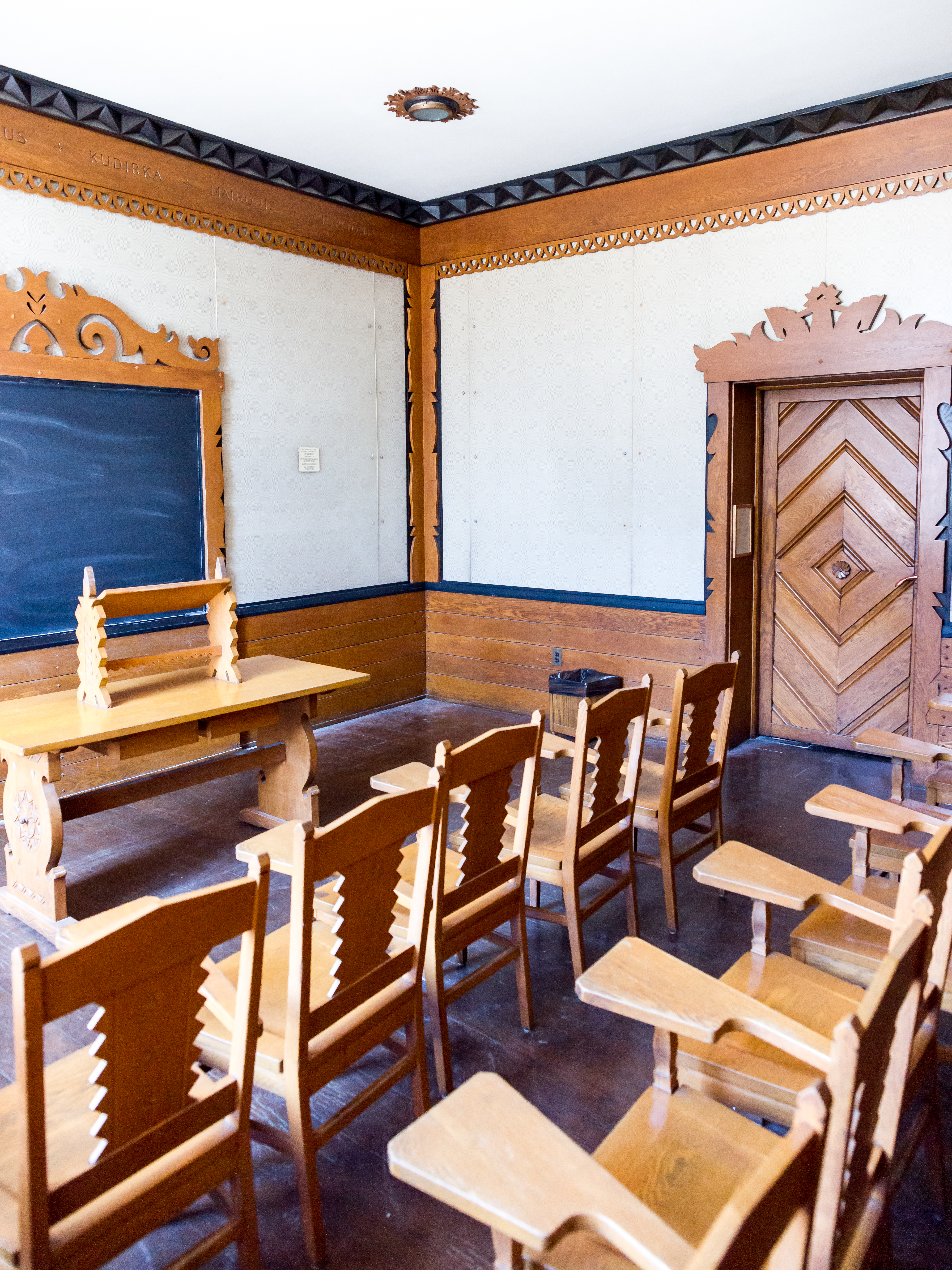 Lithuanian Nationality Room in the Cathedral of Learning at the University of Pittsburgh